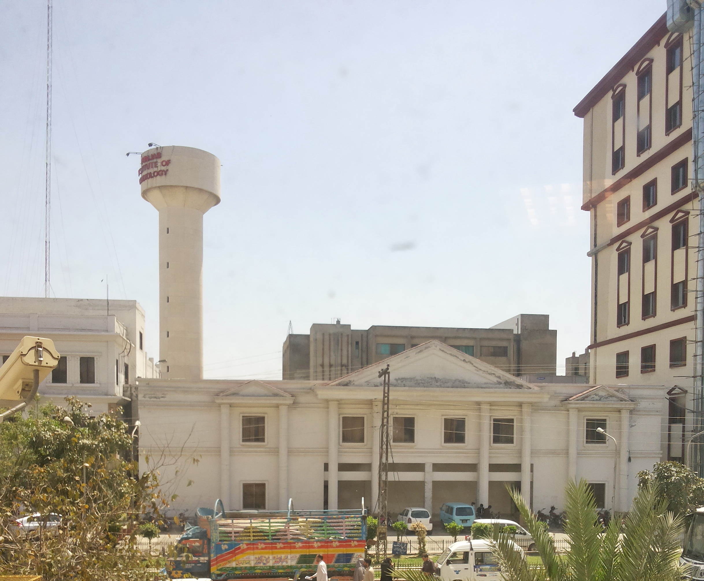 Tower of Punjab Institue of Cardiology and the Esculapio Creative Department as viewed from the premises of Services Institute of Medical Sciences